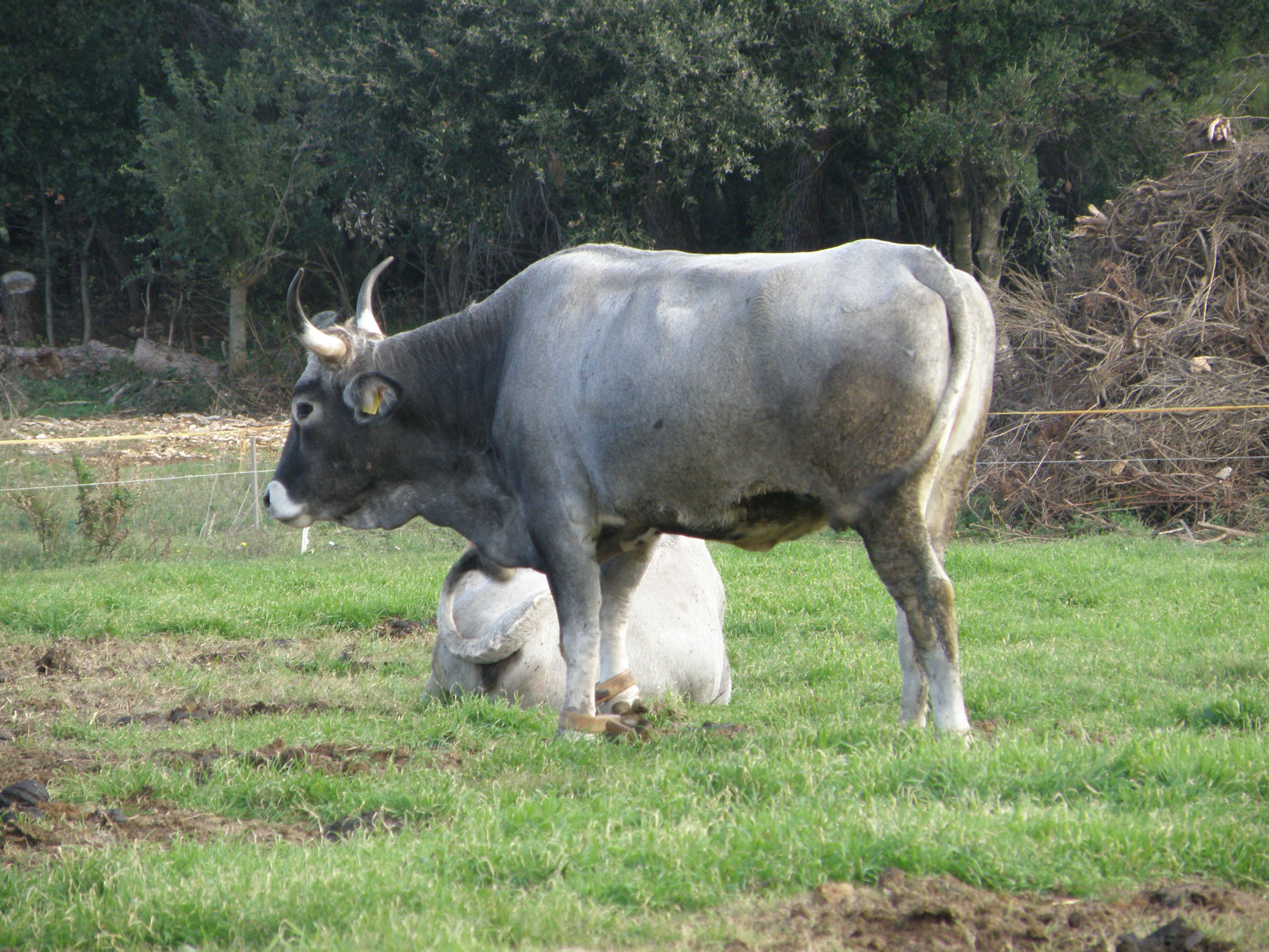 Istriana